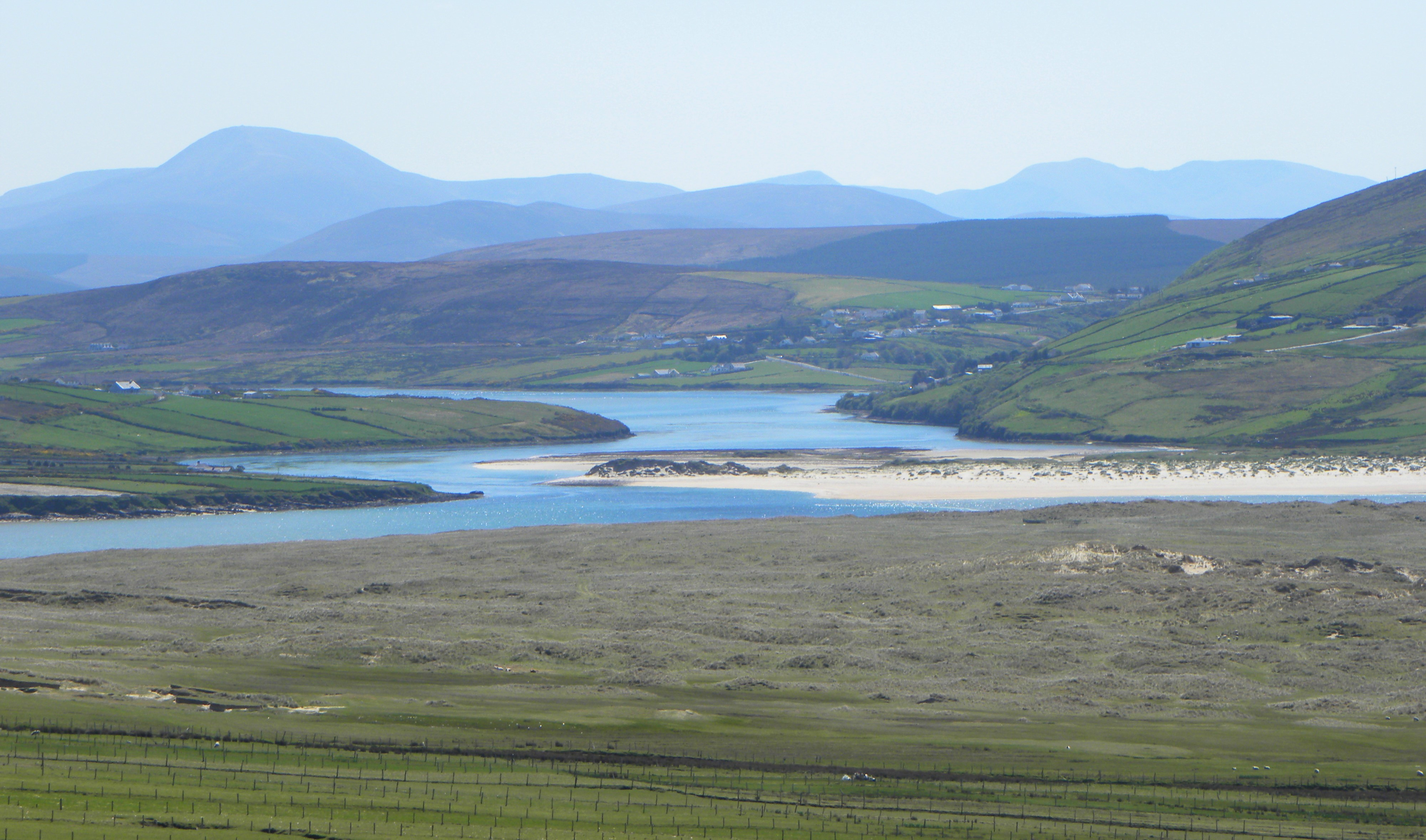 The view south at Stonefield